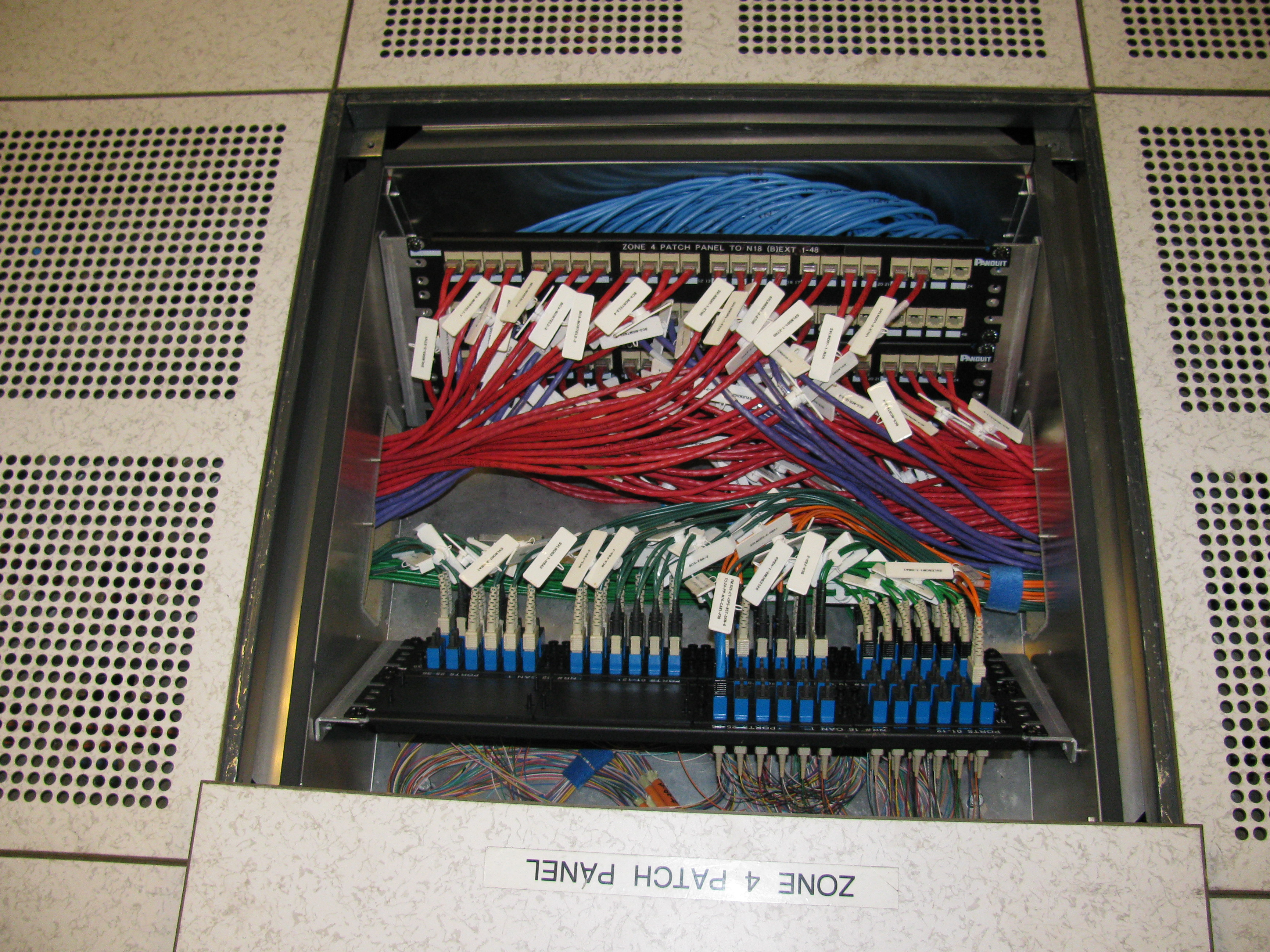 In Floor Patch Panel, Cat6 View